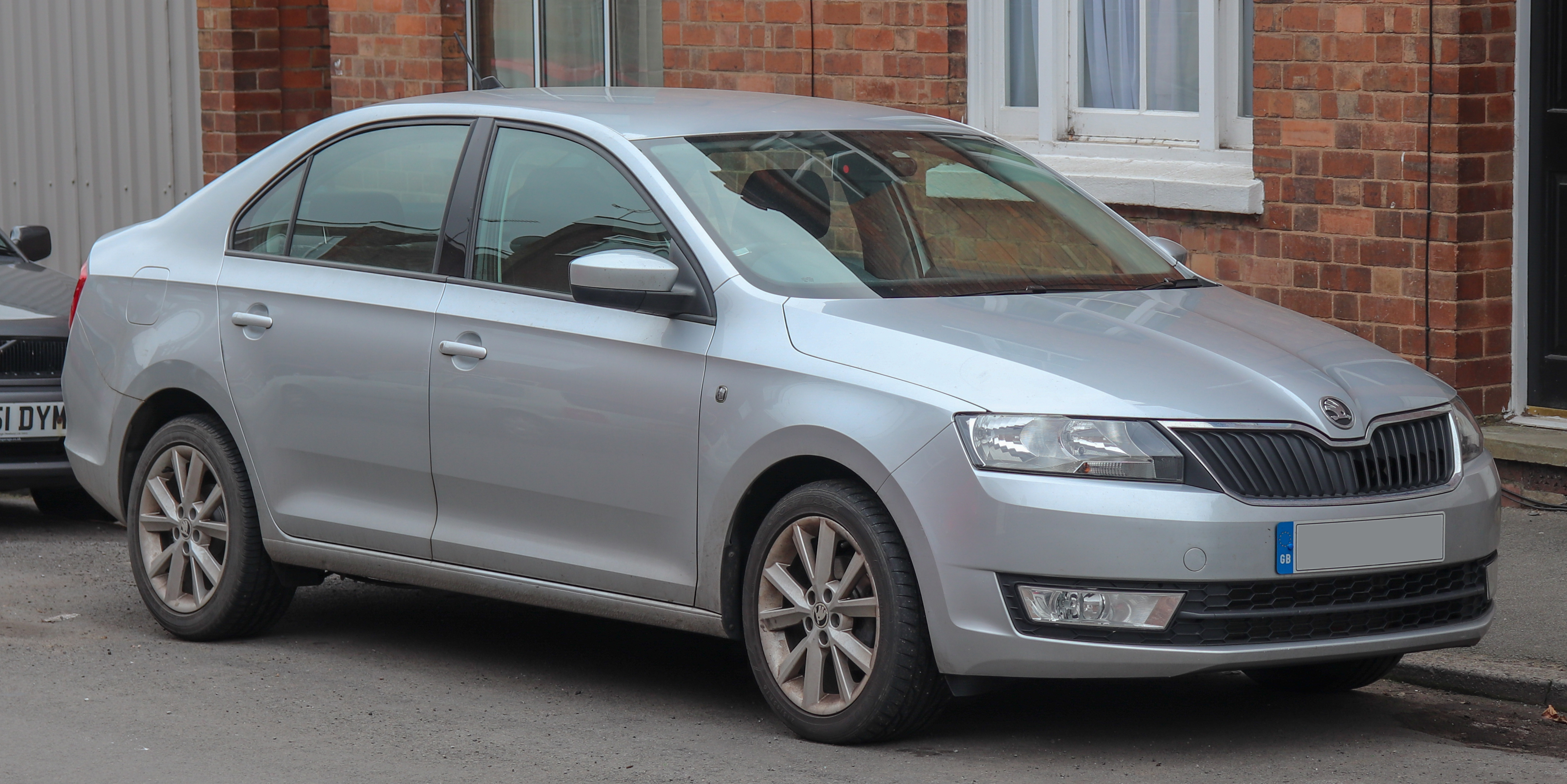 2014 Skoda Rapid SE Connect TSi 1.2 Front Taken in Warwick